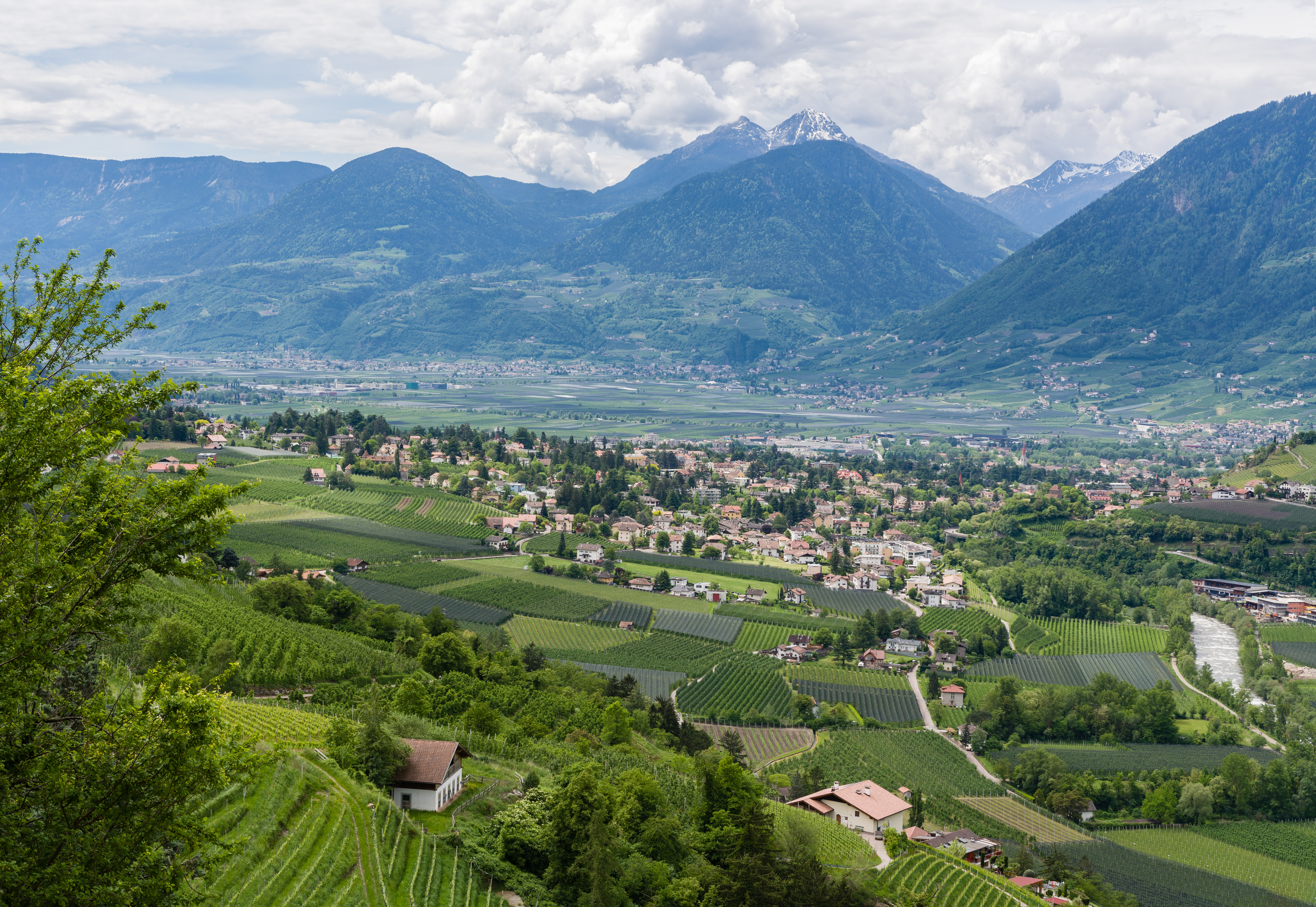 Passeier Valley with view on Merano photographed from Schenna